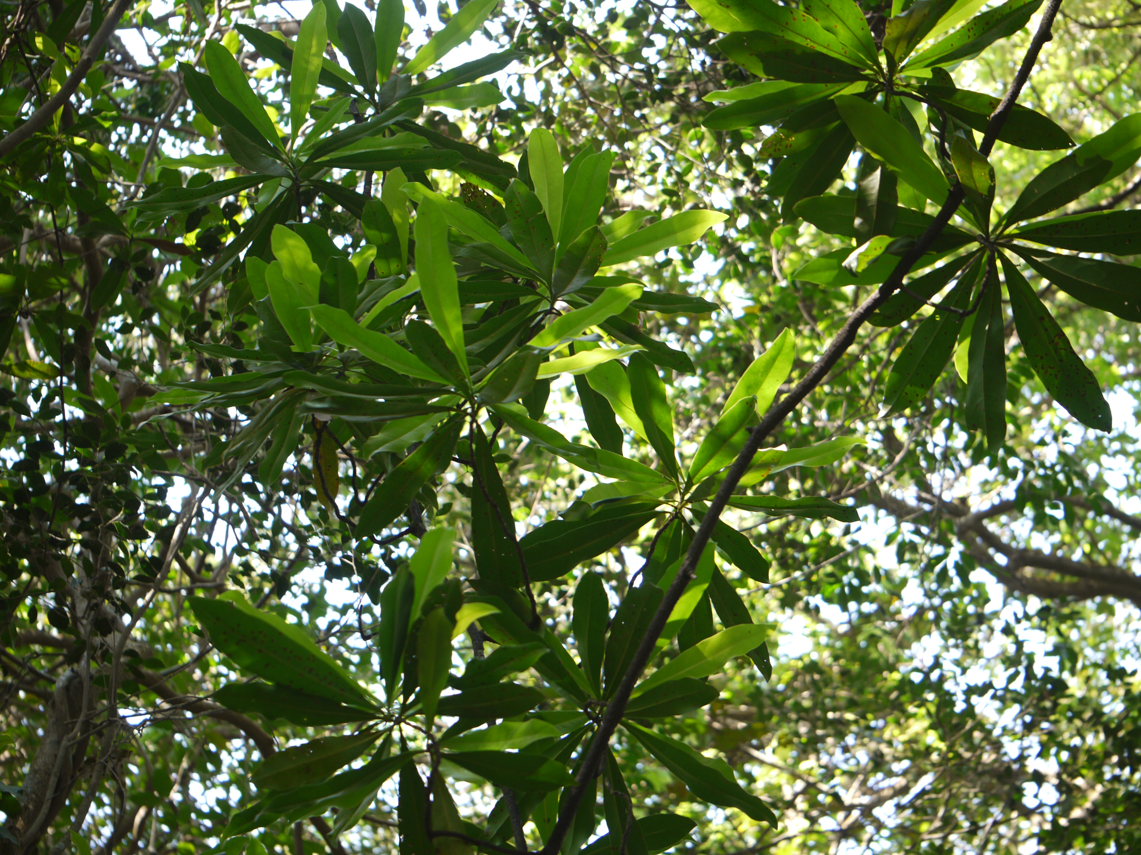 Ancistrocladus heyneanus